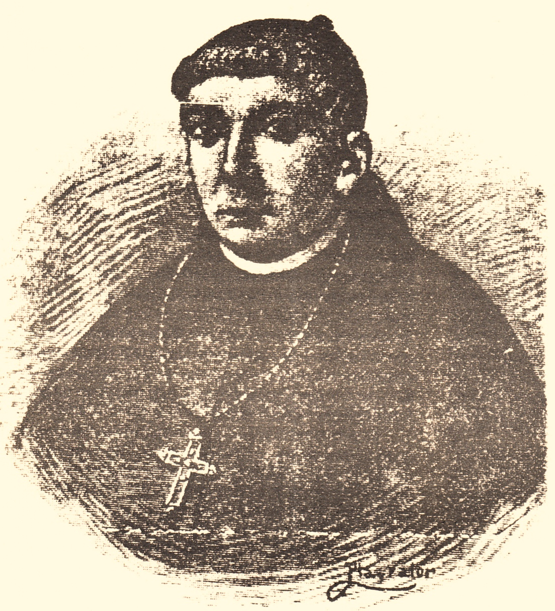 Last Spaniard Bishop of Buenos Aires, Benito Lue y Riega